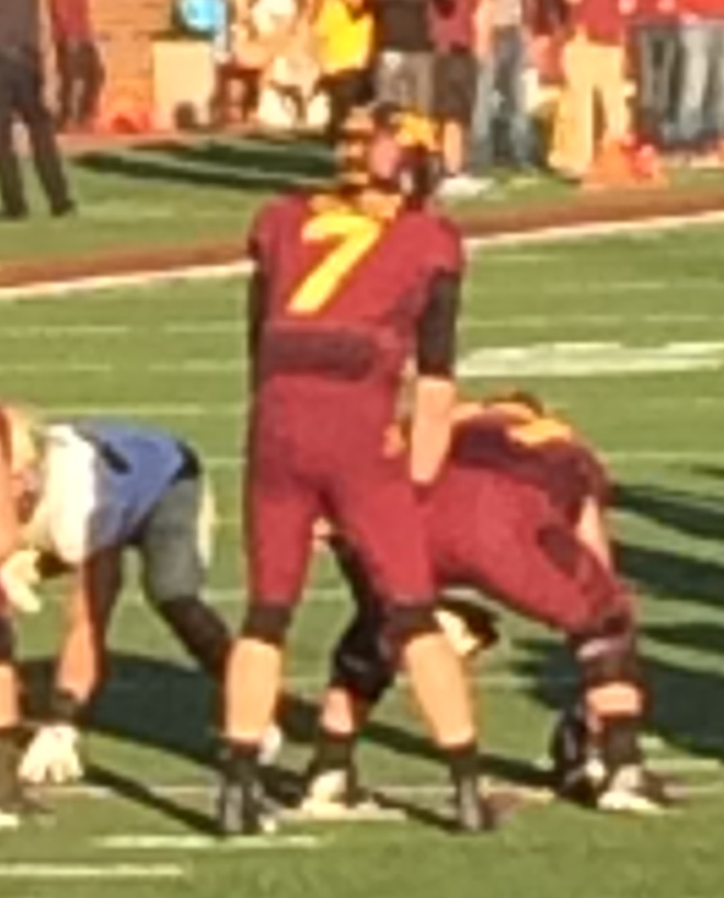 Mitch Leidner under center